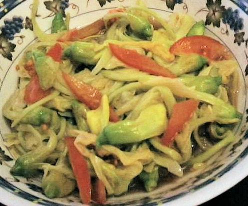 Kinilnat made of Sesbania grandiflora flowers and tomatoes. Ilokano: Ensalada a sabong ti katuday ken kamatis.